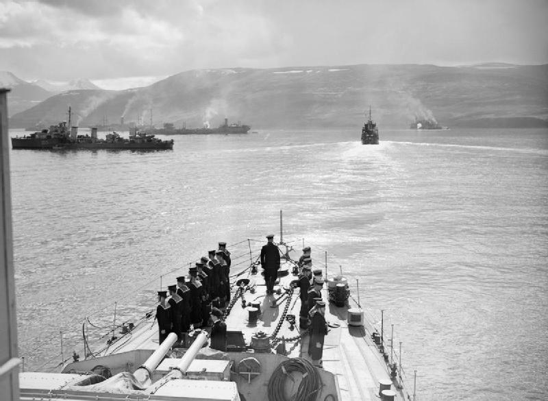 Escorts and merchant ships at Hvalfjord before the sailing of Convoy PQ-17. Behind the destroyer Icarus (1.03) is the Russian tanker AZERBAIJAN. The sea voyage to the north Russian ports of Murmansk and Archangel was the shortest route for sending Allied supplies to Russia. But it was also the most dangerous owing to the large concentration of German forces in northern Norway. The convoy PQ-17 was decimated by U-boats and the Luftwaffe after a communication from the Admiralty on 4 July 1942 ordered the escort to 'scatter'.